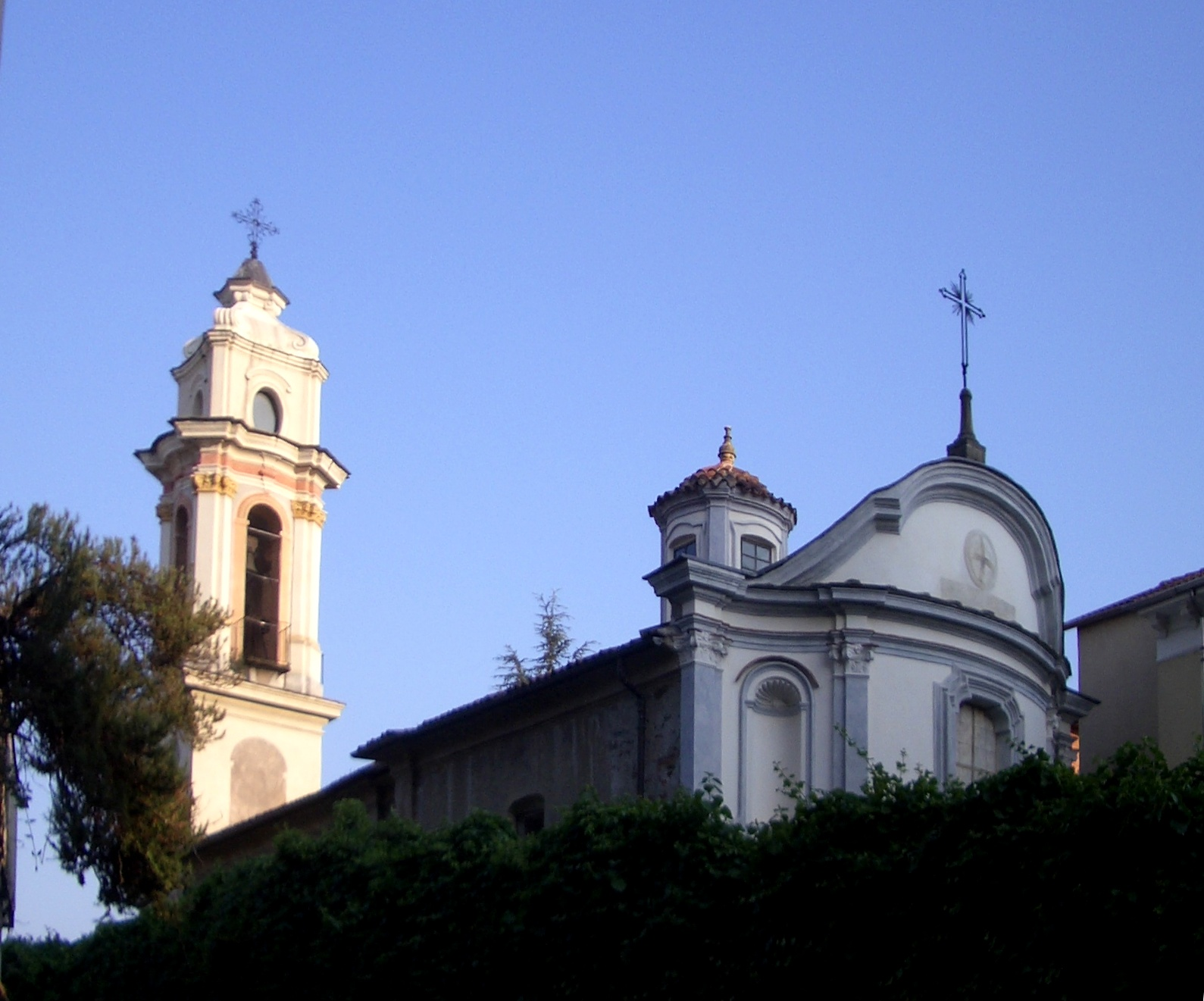 St. Gaudenzio Church at Ivrea (Torino), XVIII century